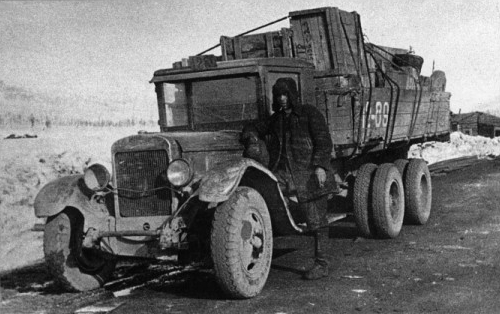 Truck on the The Road of Bones in 1938